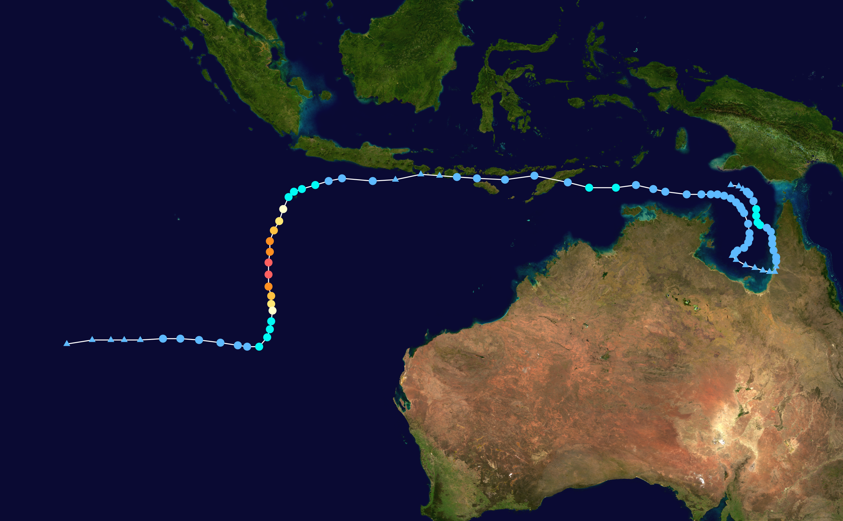 Track map of Severe Tropical Cyclone Gillian of the 2013-14 Australian region cyclone season. The points show the location of the storm at 6-hour intervals. The colour represents the storm's maximum sustained wind speeds as classified in the Saffir–Simpson scale (see below), and the shape of the data points represent the nature of the storm, according to the legend below. Saffir–Simpson scale Tropical depression≤38 mph≤62 km/h Category 3111–129 mph178–208 km/h Tropical storm39–73 mph63–118 km/h Category 4130–156 mph209–251 km/h Category 174–95 mph119–153 km/h Category 5≥157 mph≥252 km/h Category 296–110 mph154–177 km/h Unknown Storm type Tropical cyclone Subtropical cyclone Extratropical cyclone / Remnant low / Tropical disturbance / Monsoon depression